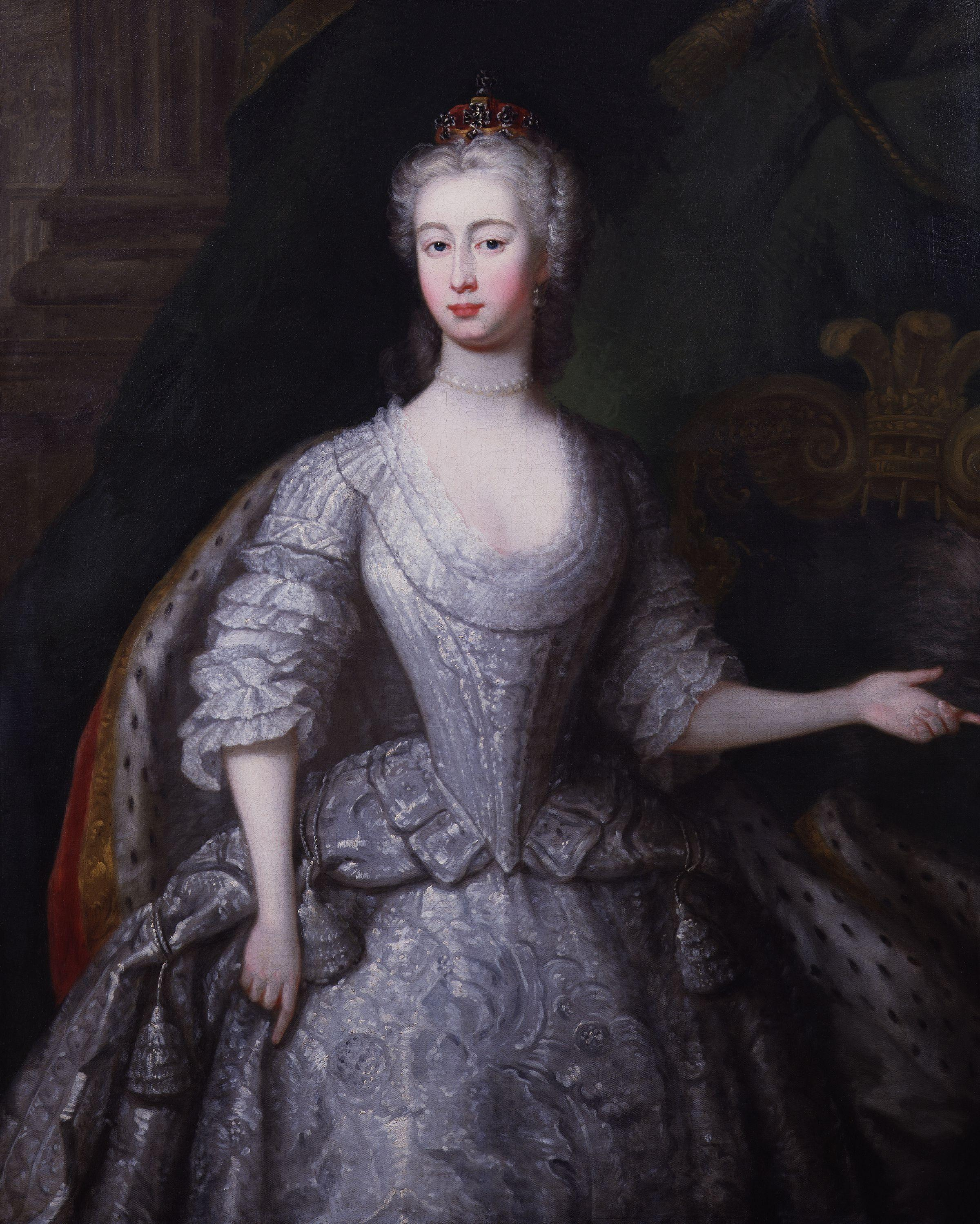 Augusta of Saxe-Gotha, Princess of Wales